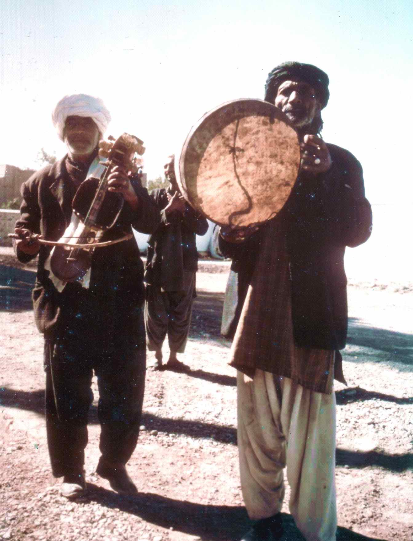 I took this photo during a visit to Herat in 1973